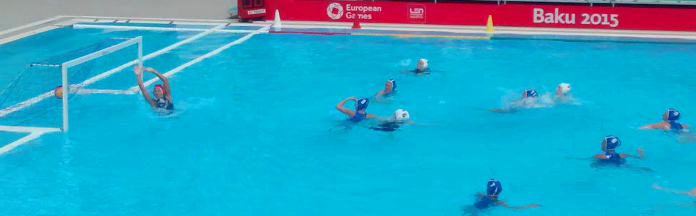 Great Britain's Hannah Edwards scores cross cage v Israelduring the 2015 European Games